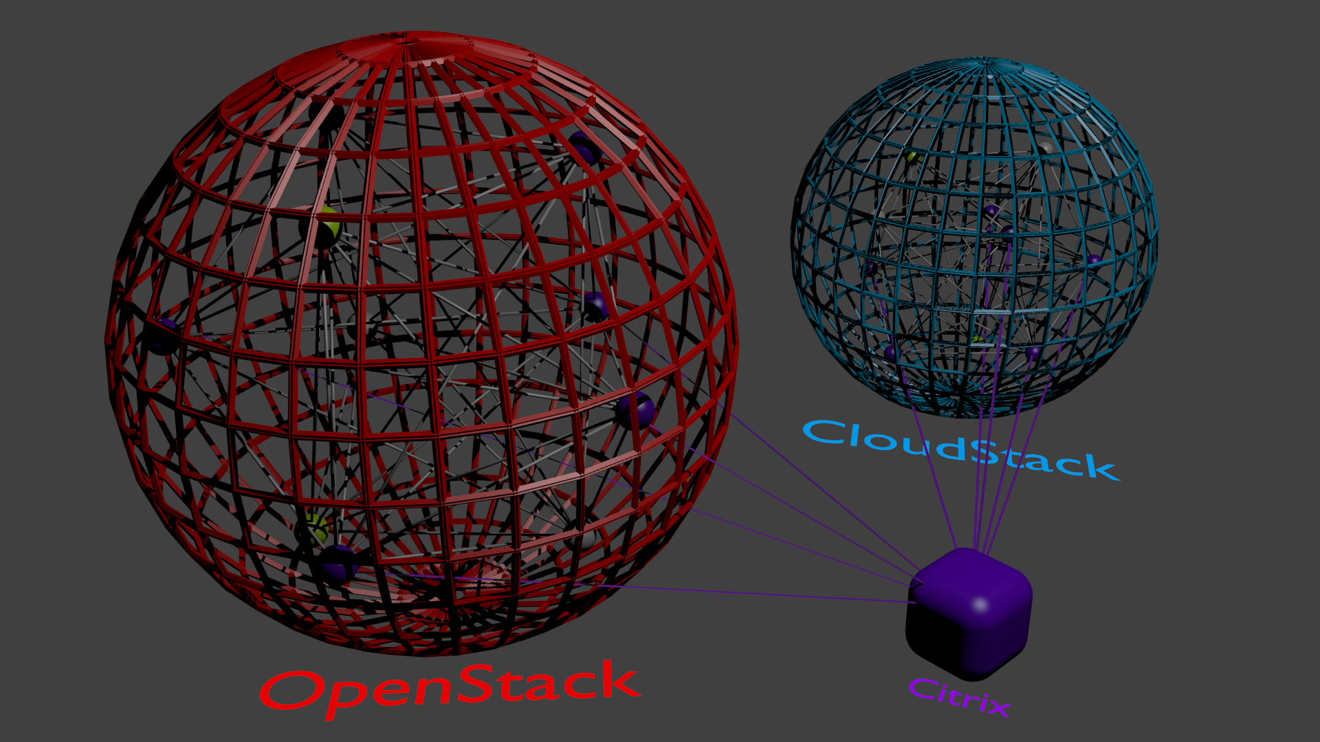 Network analysis 3D visualization illustrates that Citrix (a firm) contributed both two OpenStack and CloudStack (two competing software ecosystems). Moreover, Citrix developers collaborated in software development with developers from VMware, IBM, and Rackspace (all competing with each other).